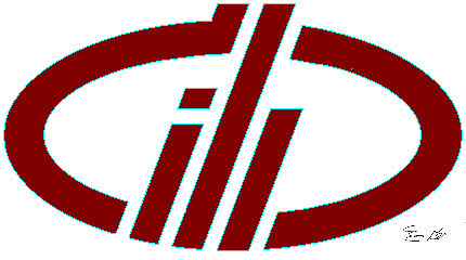 Raziinst